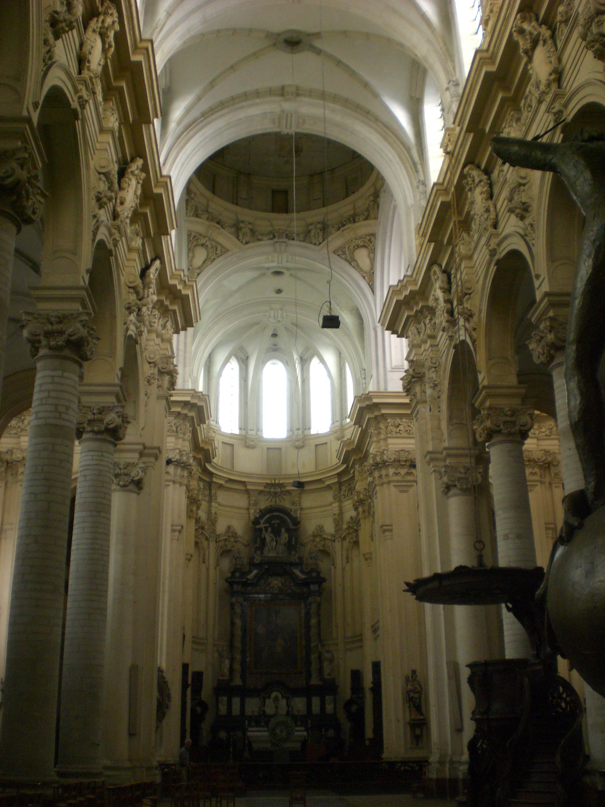 Leuven, Saint Michael's Church, 1650-71